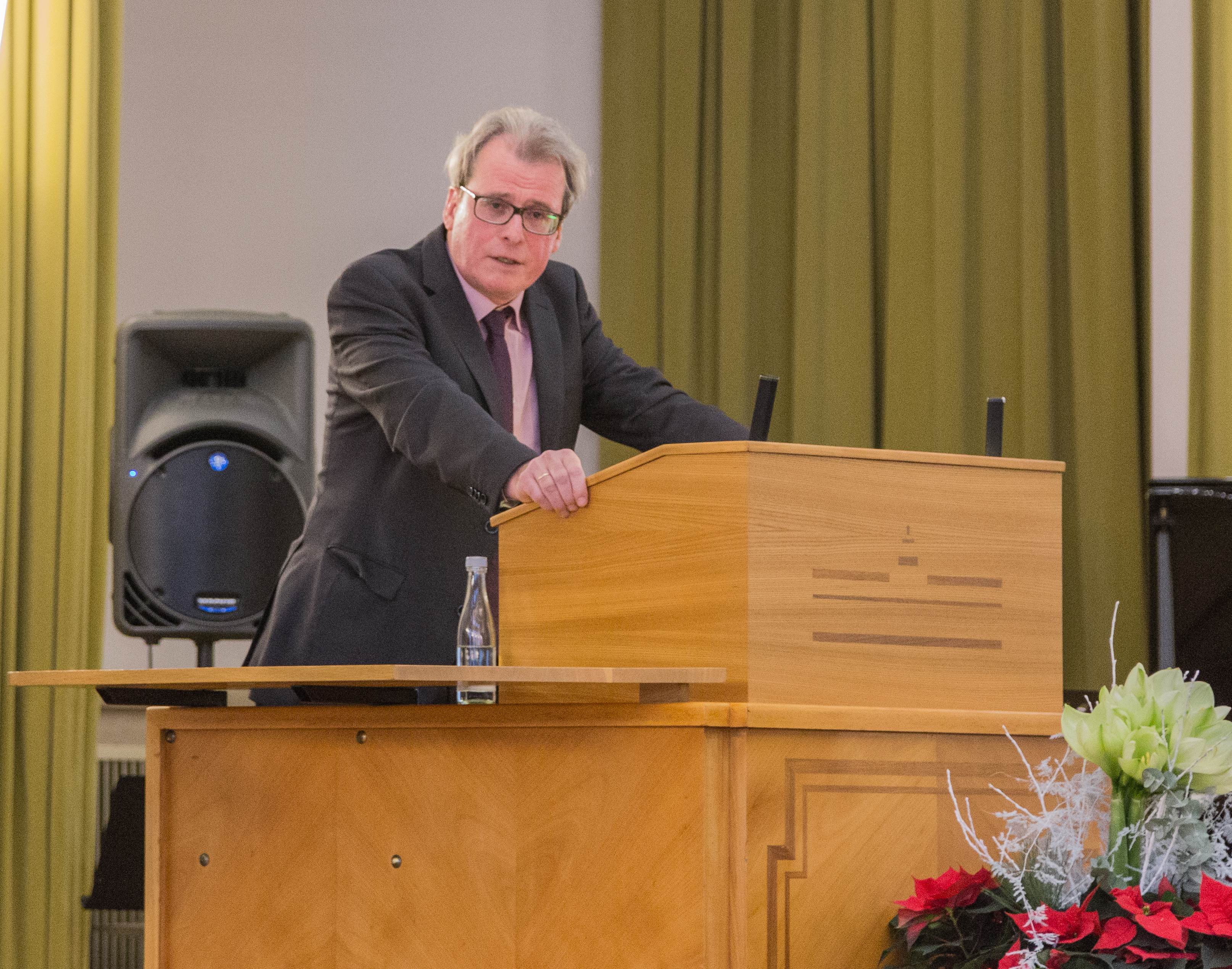 Honorary doctorate ceremony for Joachim Gauck, former President of the Federal Republic of Germany, at the auditorium of the University of Münster (Westfälische Wilhelms-Universität Münster) in Münster, North Rhine-Westphalia, Germany. Joachim Gauck was awarded an honorary doctorate (Dr. h.c. theol.) by the Faculty of Protestant Theology of the University. Here Professor Dr. Arnulf von Scheliha, member of the Faculty of Protestant Theology and Director of the Institut für Ethik und angrenzende Sozialwissenschaften (IfES), delivering the laudatio.